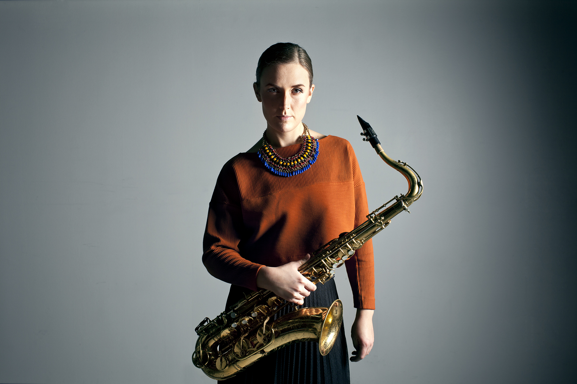 A portrait photo of the Norwegian jazz musician Hanna Paulsberg